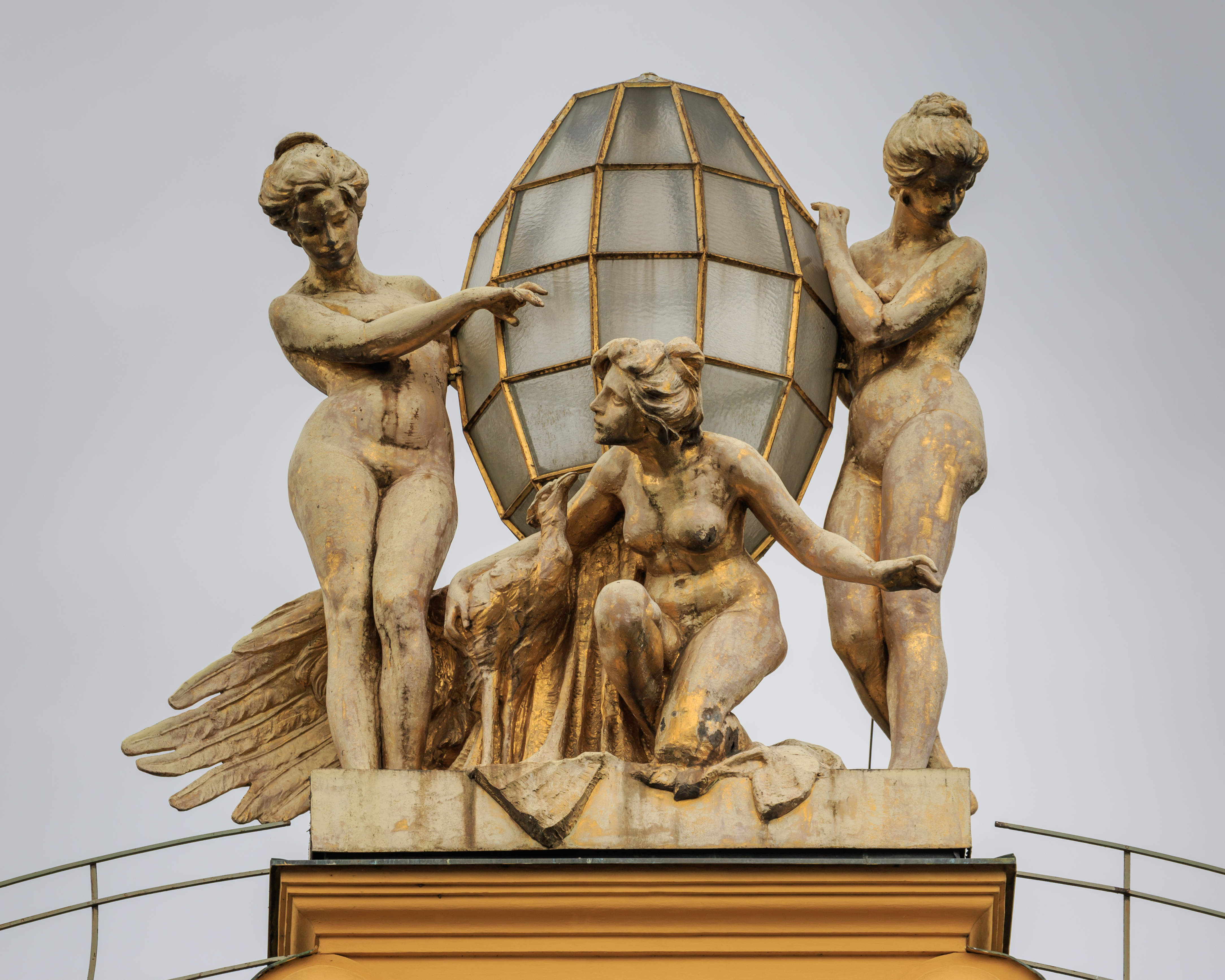 Roof sculptures of Grand Hotel Evropa in Prague (Czech Republic)